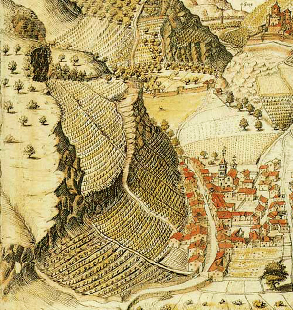 Exilles, Italia, by Jean de Beins earl XVIIe